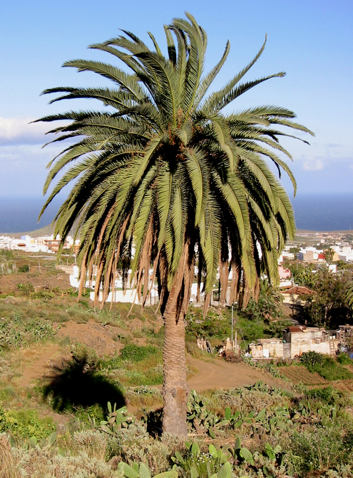 Phoenix canariensis palm tree in Tenerife, Canary Islands